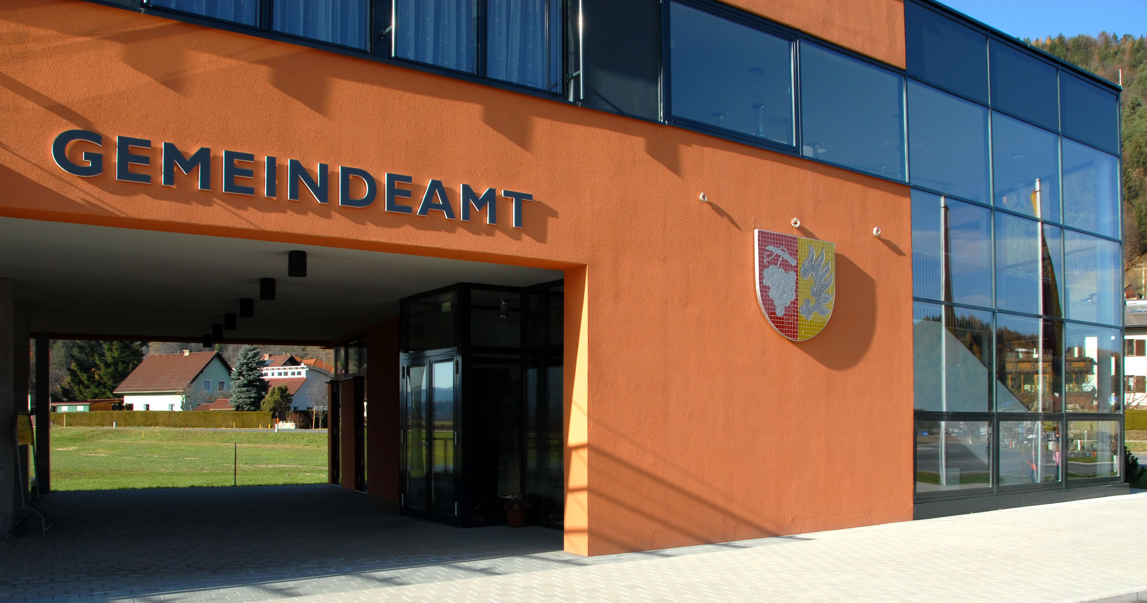 Municipal office of the community of Sittersdorf in the district of Voelkermarkt, Carinthia, Austria